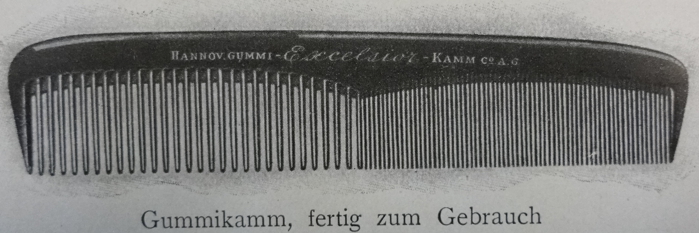 Hannoversche Gummiwerke Excelsior, rubber haircomb 1012